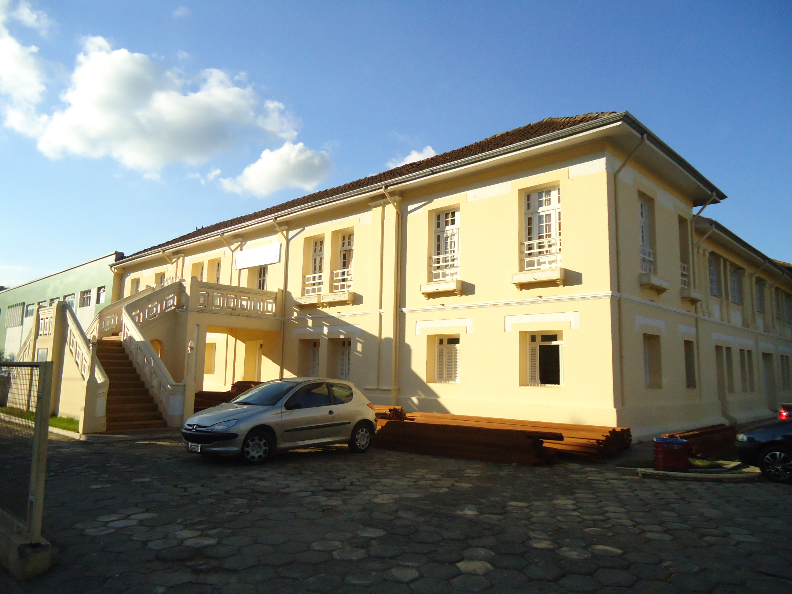 São Sebastião Hospital